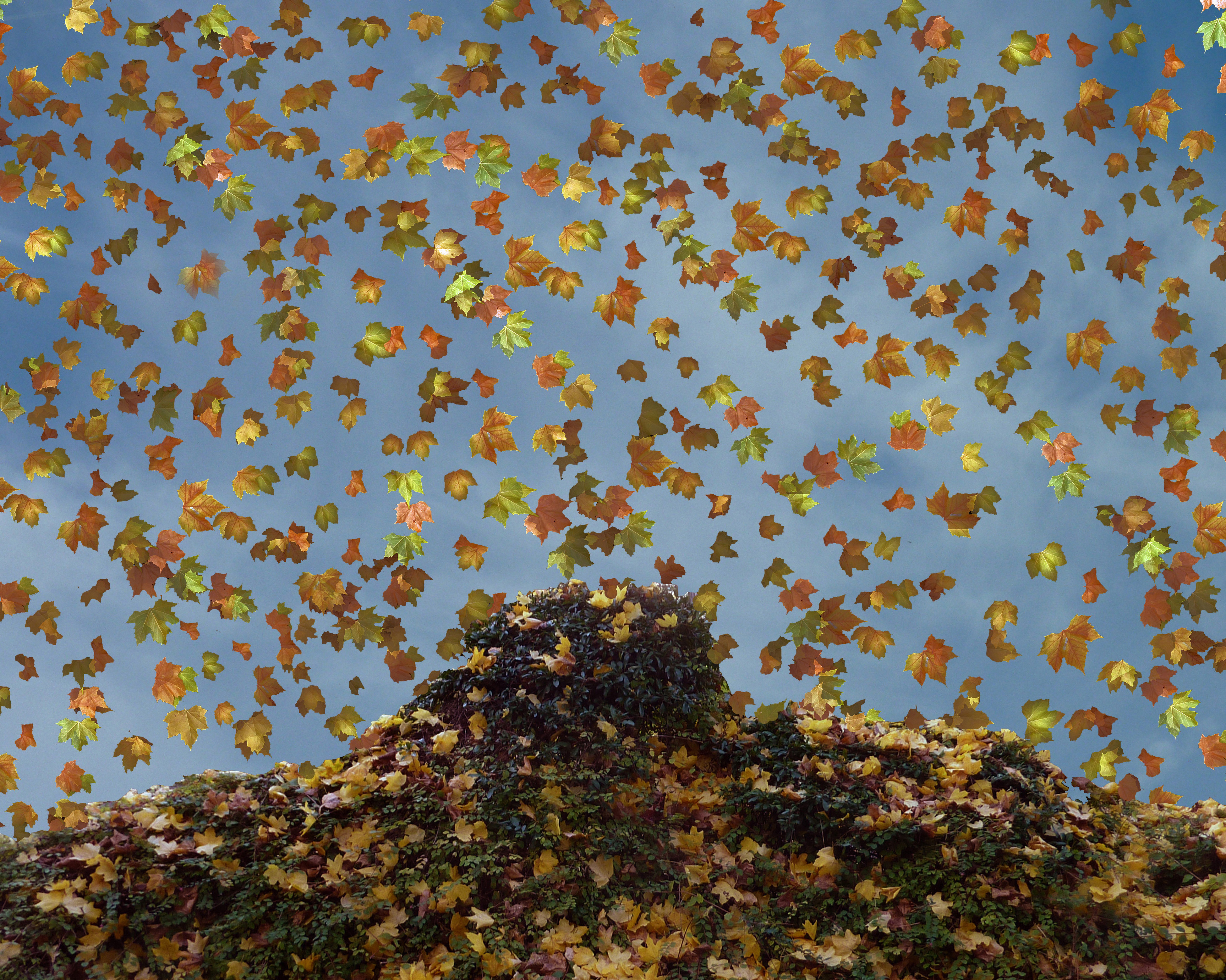 autumn